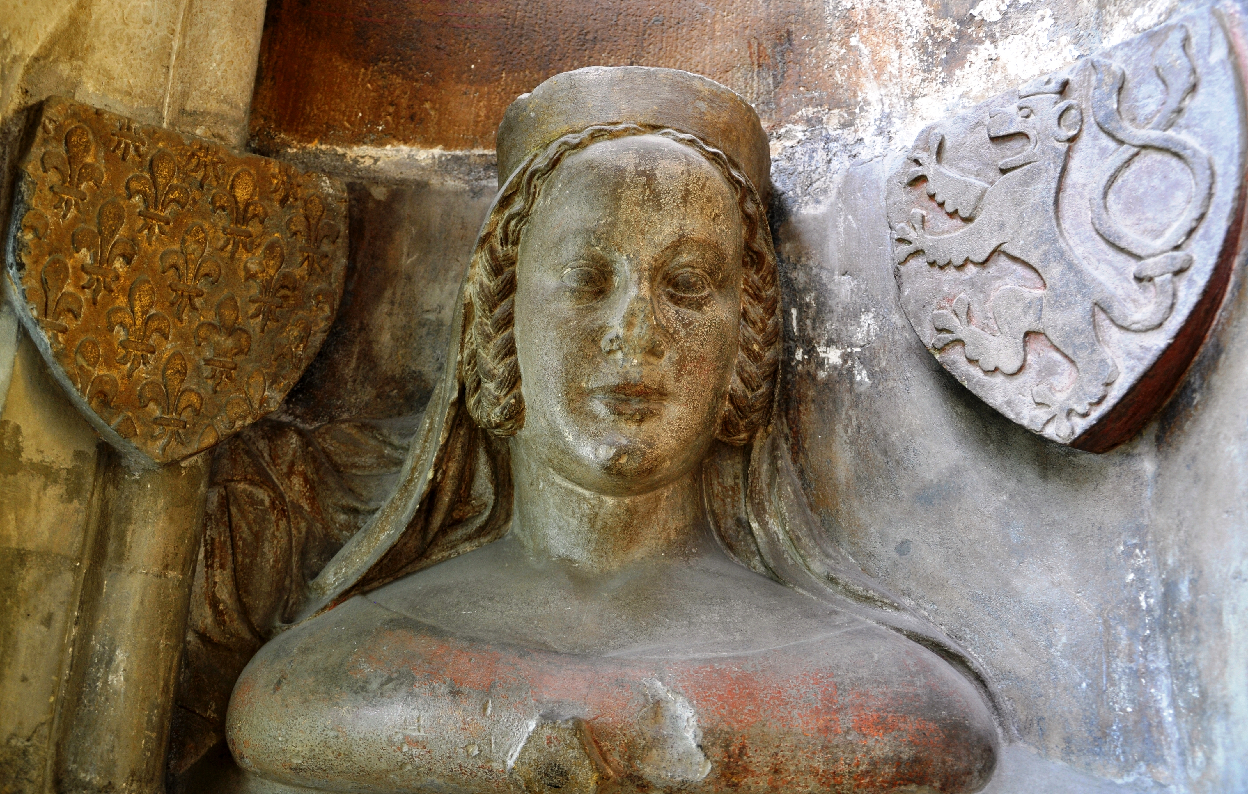 Blanche of Valois, Queen of Bohemia, St. Vitus Cathedral, Prague. Bust from the 14th century.